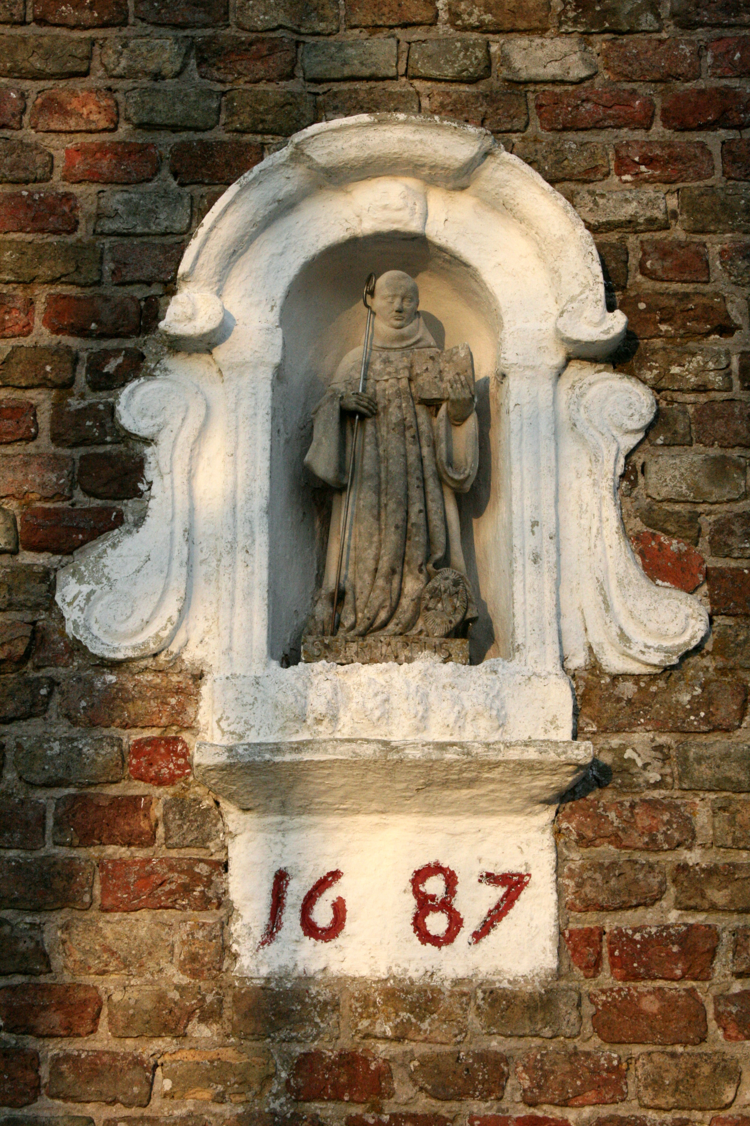 Chapel near Ter Doest, in Lissewege (municipality of Brugge), West-Flanders, Belgium